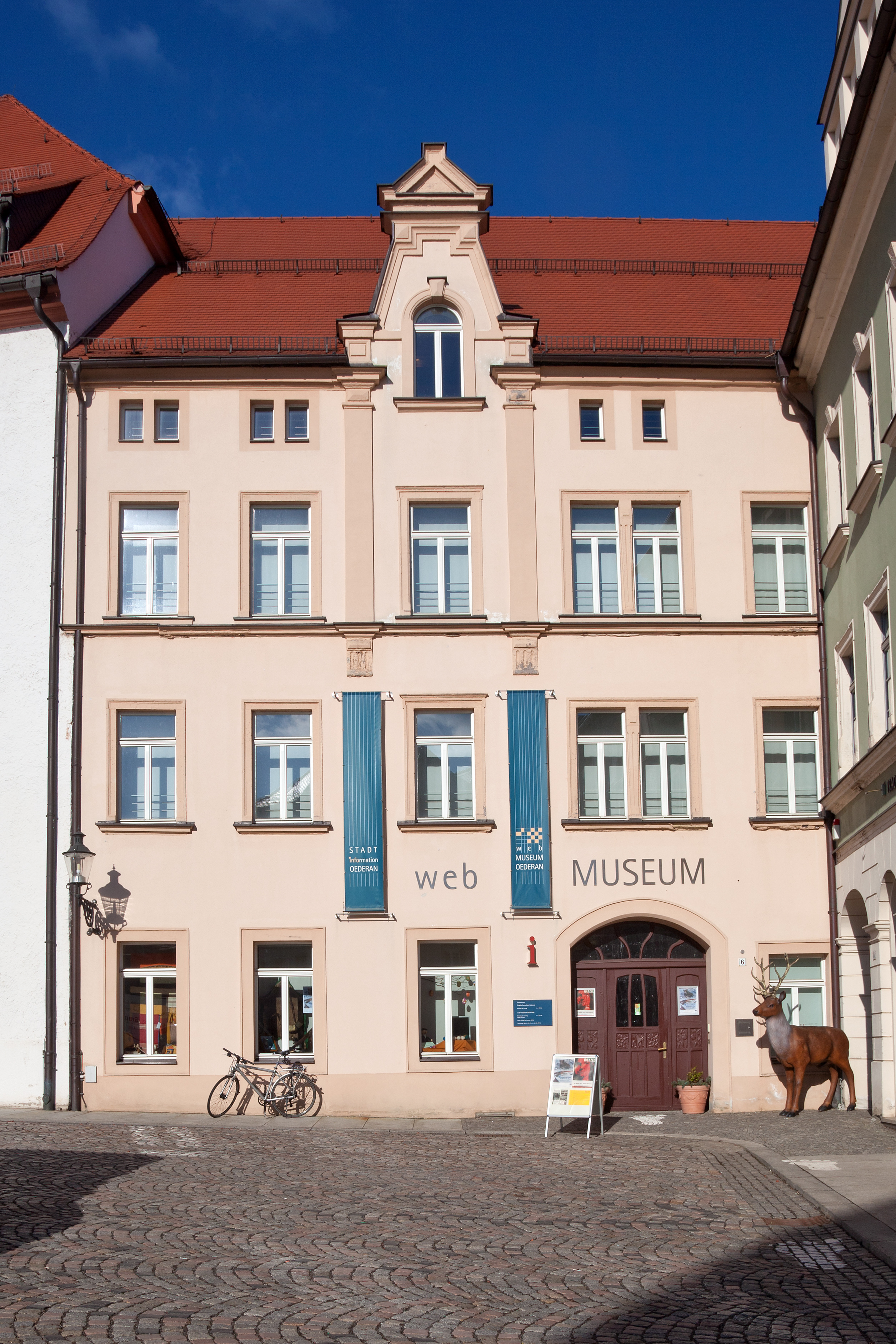 Oederan, Saxony, Weaving Museum